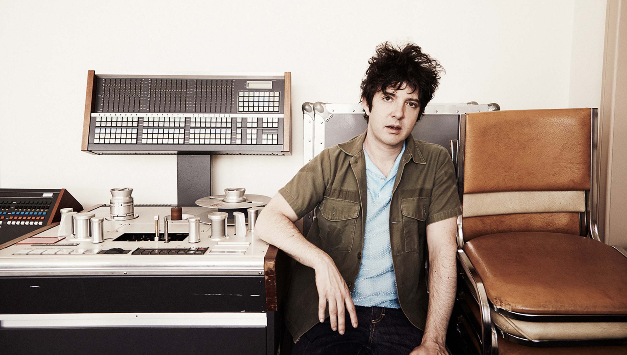 Harper Simon by Dan Monick